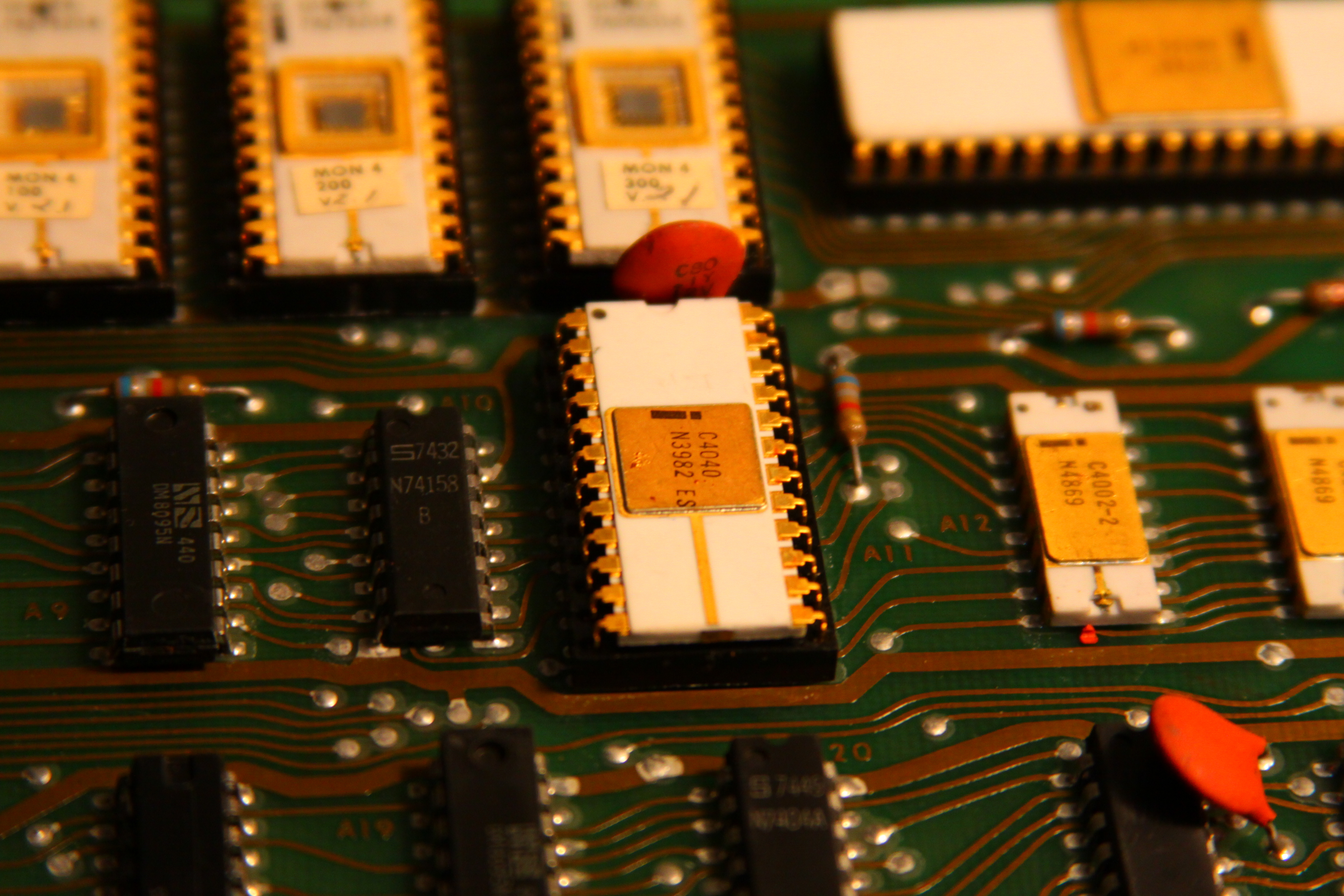 Main processor in the Intel Intellec 4 MOD 40. Note the "ES" on the C4040 indicating thati it is an engineering sample.